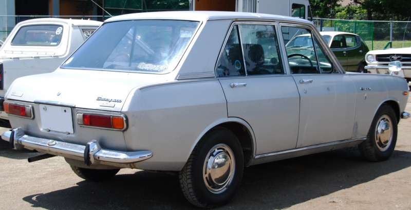 Datsun Sunny.